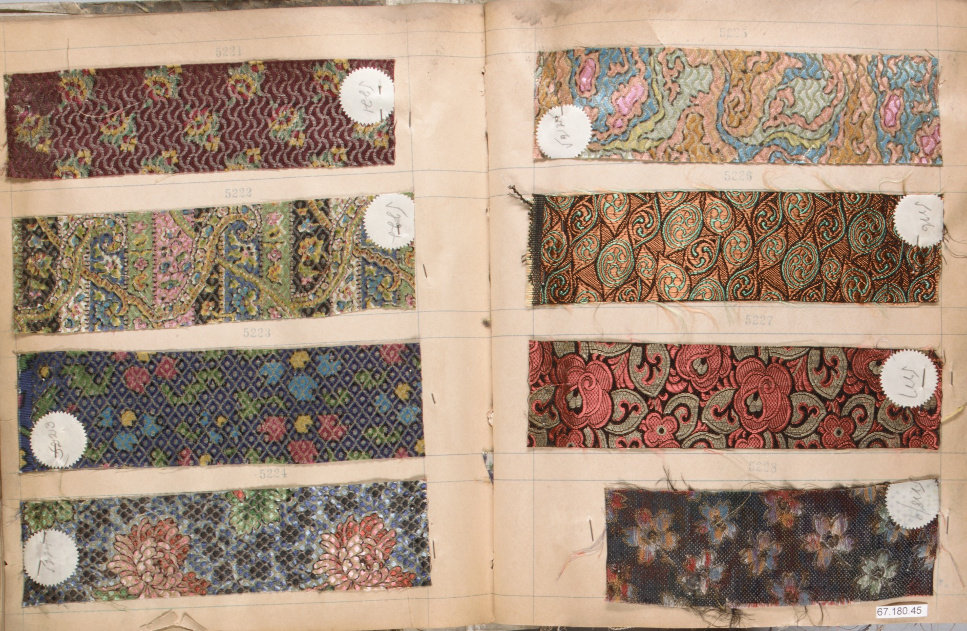 French, Lyons; Sample book; Textiles-Sample Books